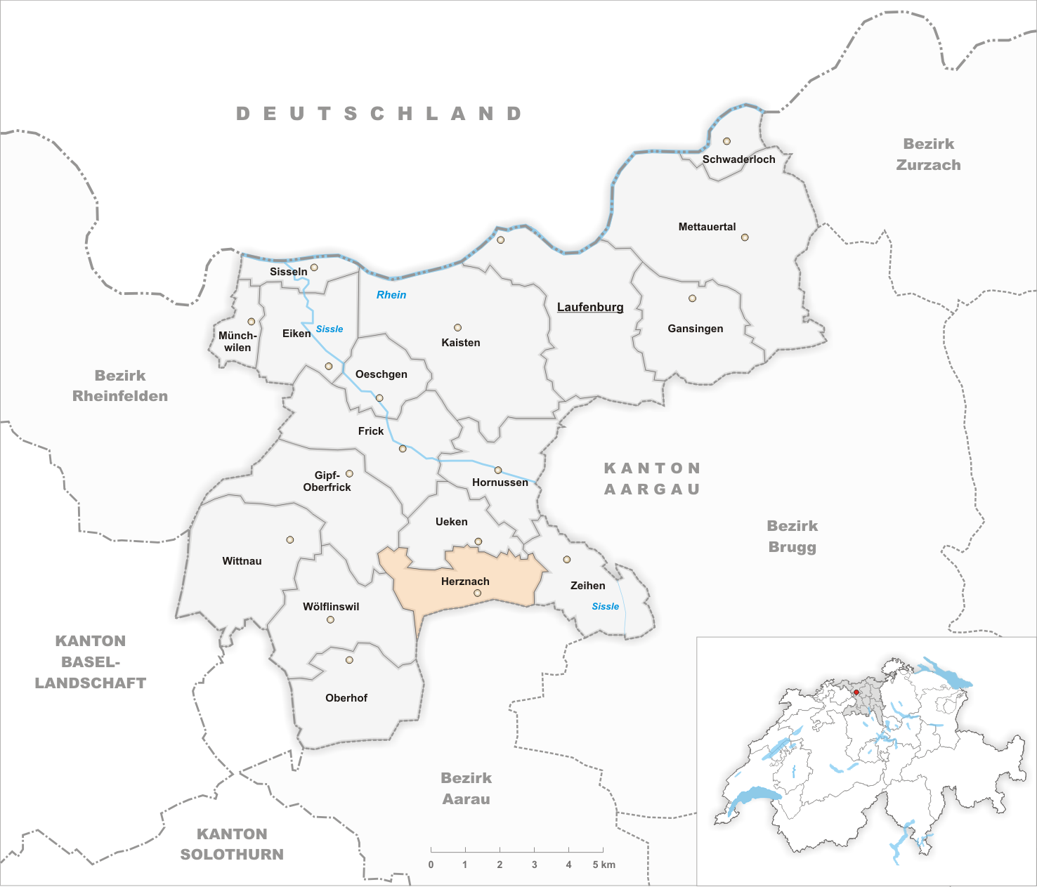 Municipality Herznach